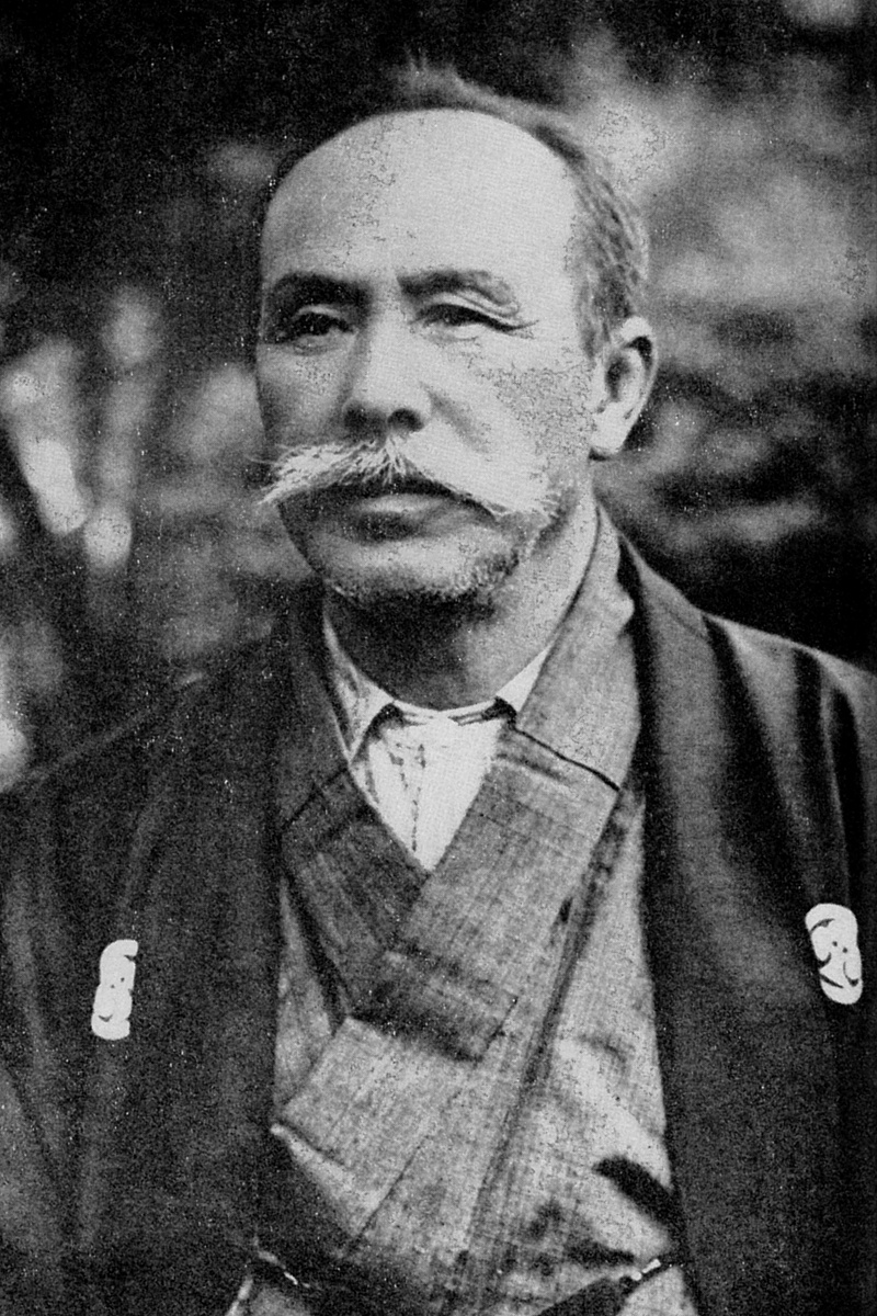 Rev.HONDA Youitu